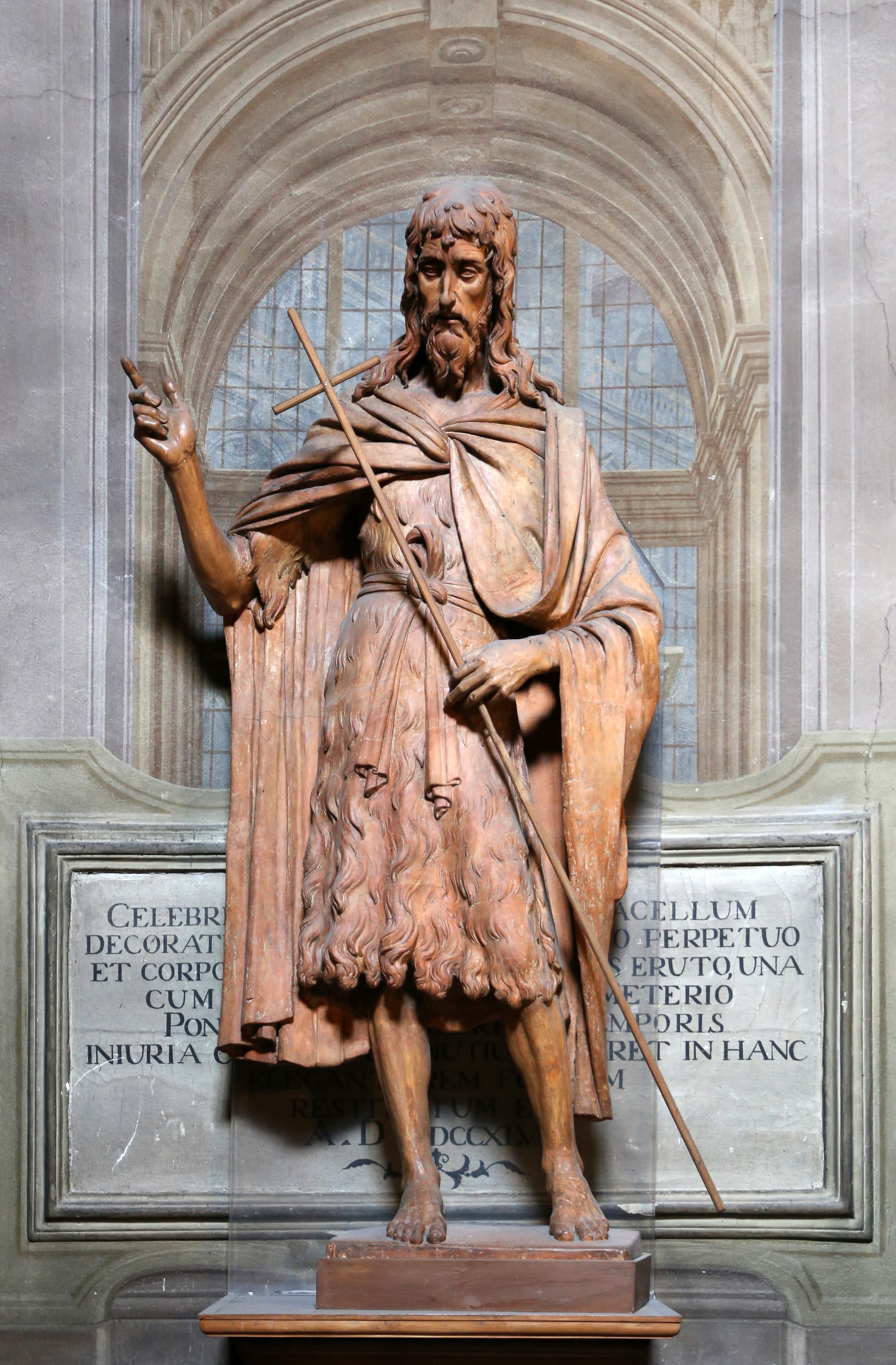 Santissima Annunziata (Florence) - Left nave